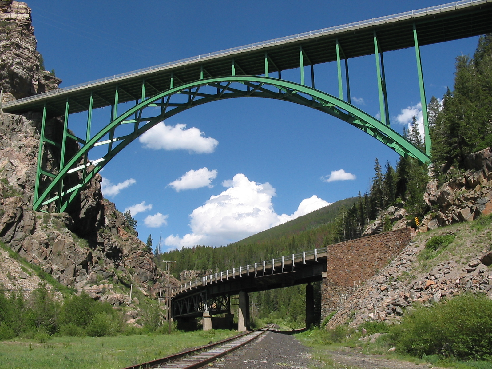 Red Cliff Bridge 2006